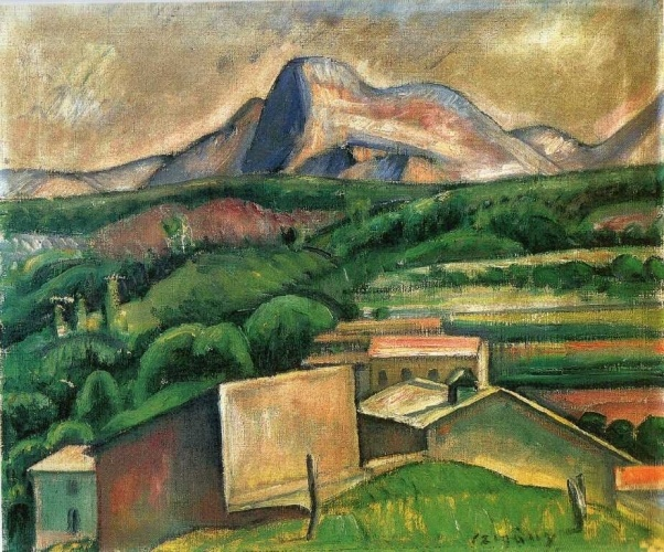 Landscape (South France)(Tájkép, Provence)